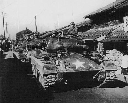 NSF(National Safety Force of Japan) Special vehicles (so-called Tanks)